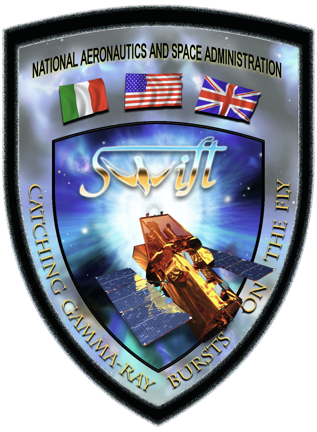 The Swift mission patch depicts both the spacecraft and the bird for which it was named. The observatory is named after a small, nimble bird that can grab up insects as it flies through the sky. Similarly, the observatory can swiftly turn and point its instruments to catch a gamma-ray burst "on the fly" to study both the burst and its afterglow. This afterglow phenomenon follows the initial gamma-ray flash in most bursts and it can linger in X-ray light, visible light and radio waves for hours or weeks, providing great detail for observations.